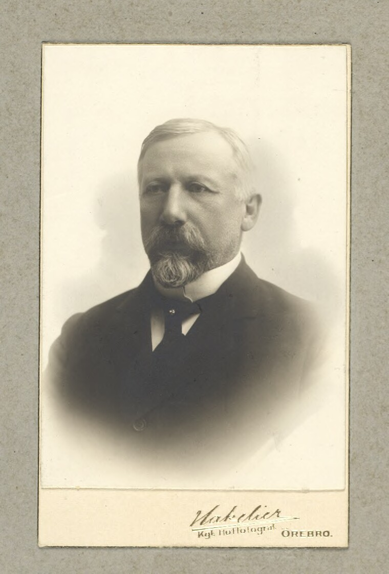 Paul Heurgren (1864-1928), ethnolog and veterinarian. Photo by Bernhard Hakelier (1848-1910)